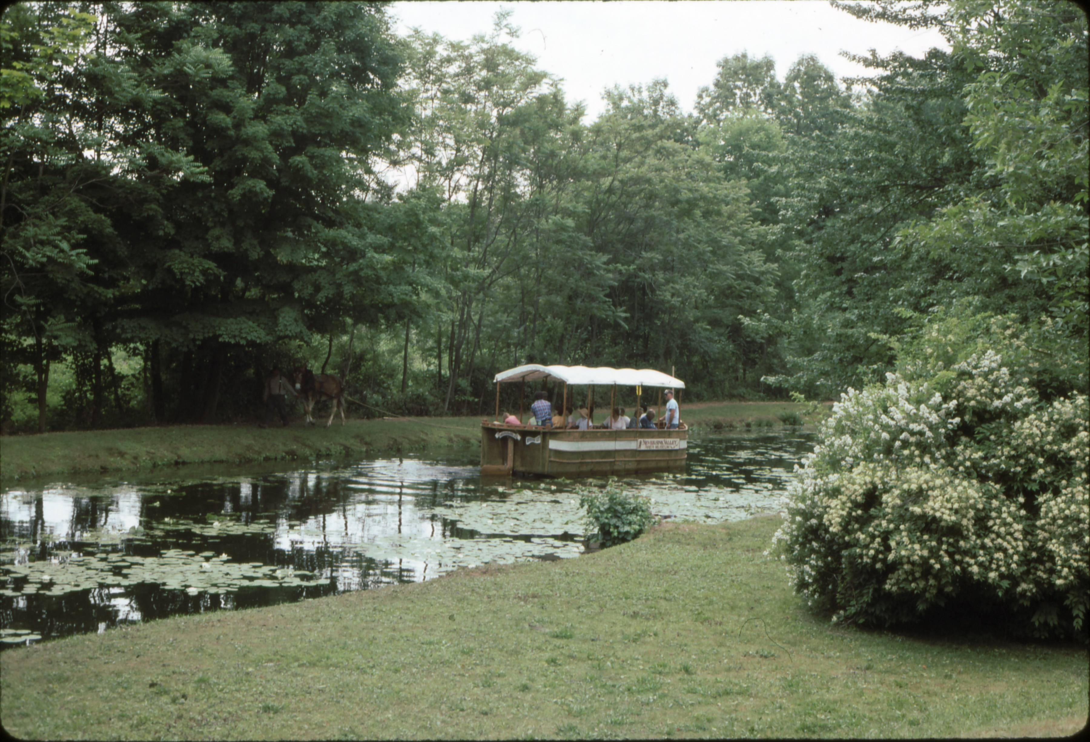 July 1998 by Chuck Walsh In a scene that could have taken place 150 years earlier, a canal boat travels the Morris Canal at Waterloo Village in this July 1998 photo. This section of the canal is one of the few remaining watered sections of the once hundred-mile long route. Note the mule pulling the boat from the canal's towpath.